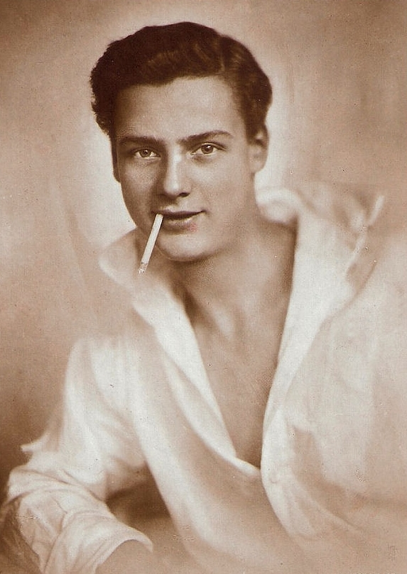 ca. 1922 Portrait of Austrian-born actor Walter Slezak (1902–1983) by Austrian photographer Franz Xaver Setzer (1886–1939).